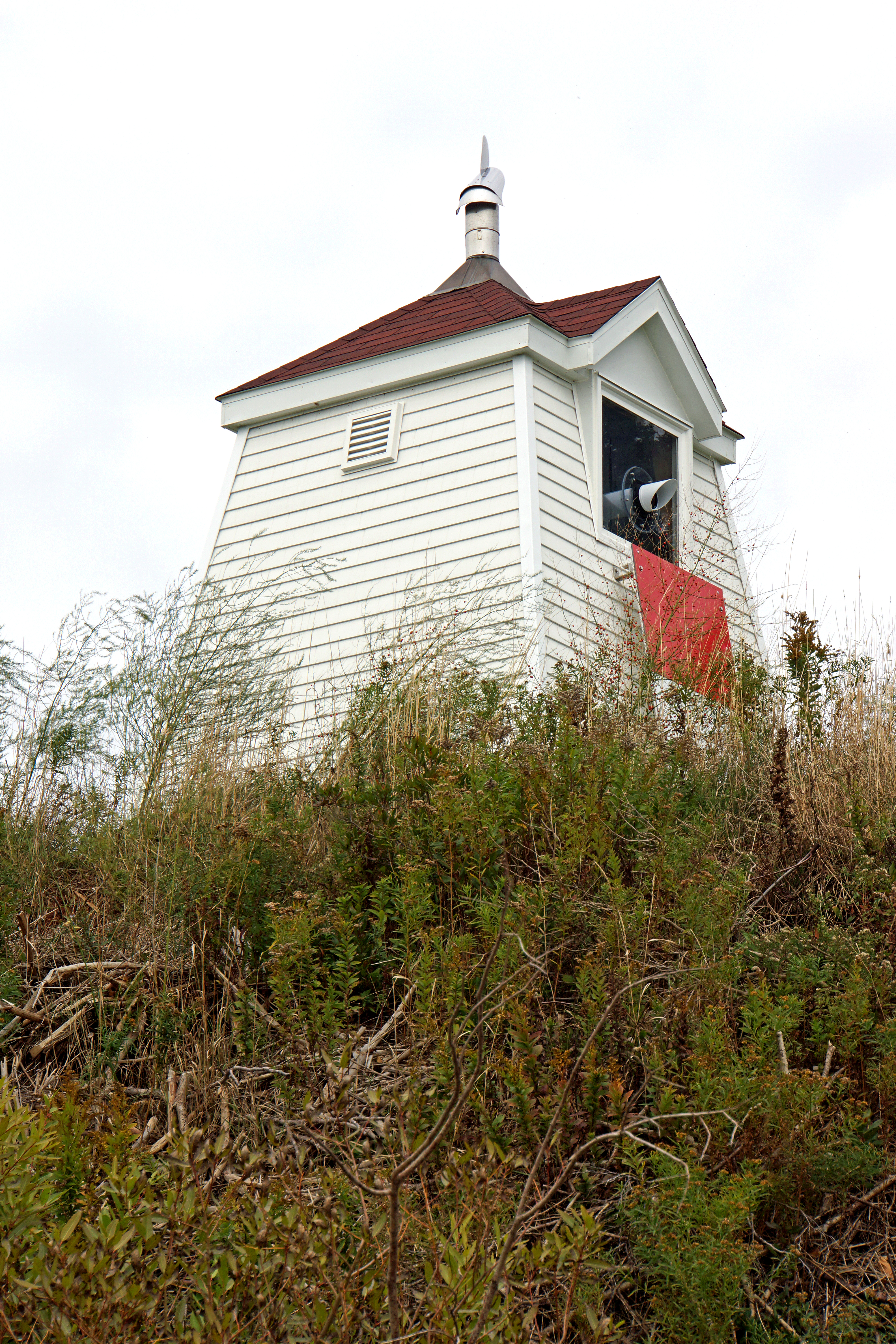 The tower is 5.2 m (16.3 ft) tall and was built in 1990. Light: equal interval white flash